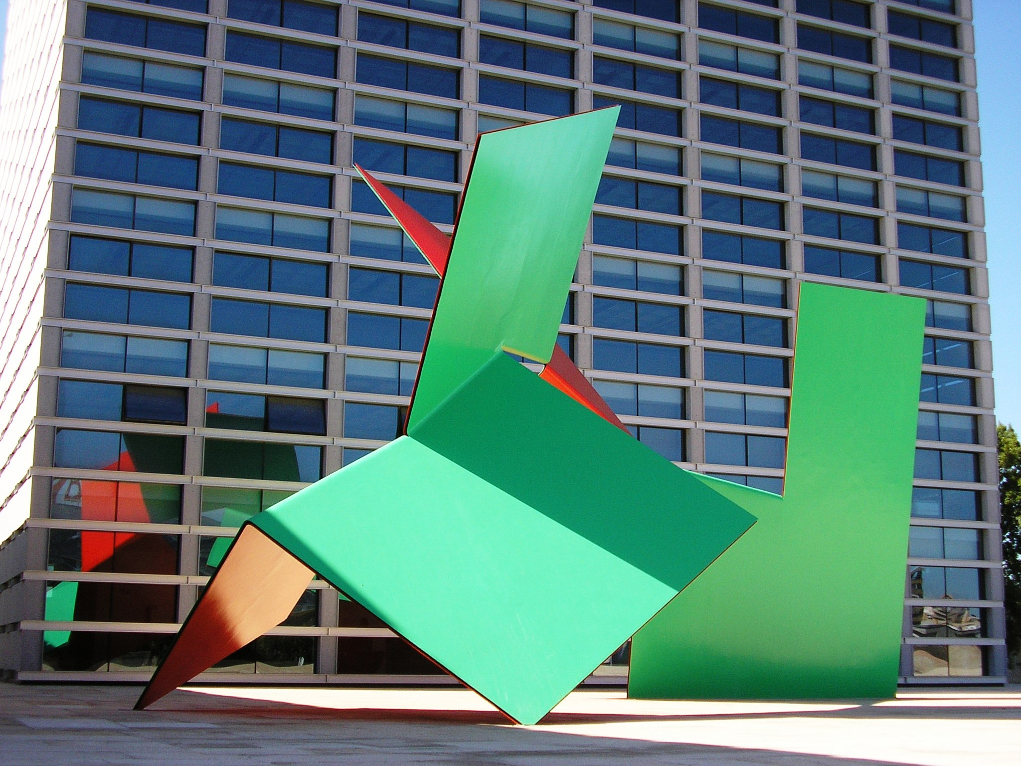 Angelo de Sousa sculpture in front of Burgo Empreendimento (by Eduardo Souto de Moura) in Porto, Portugal